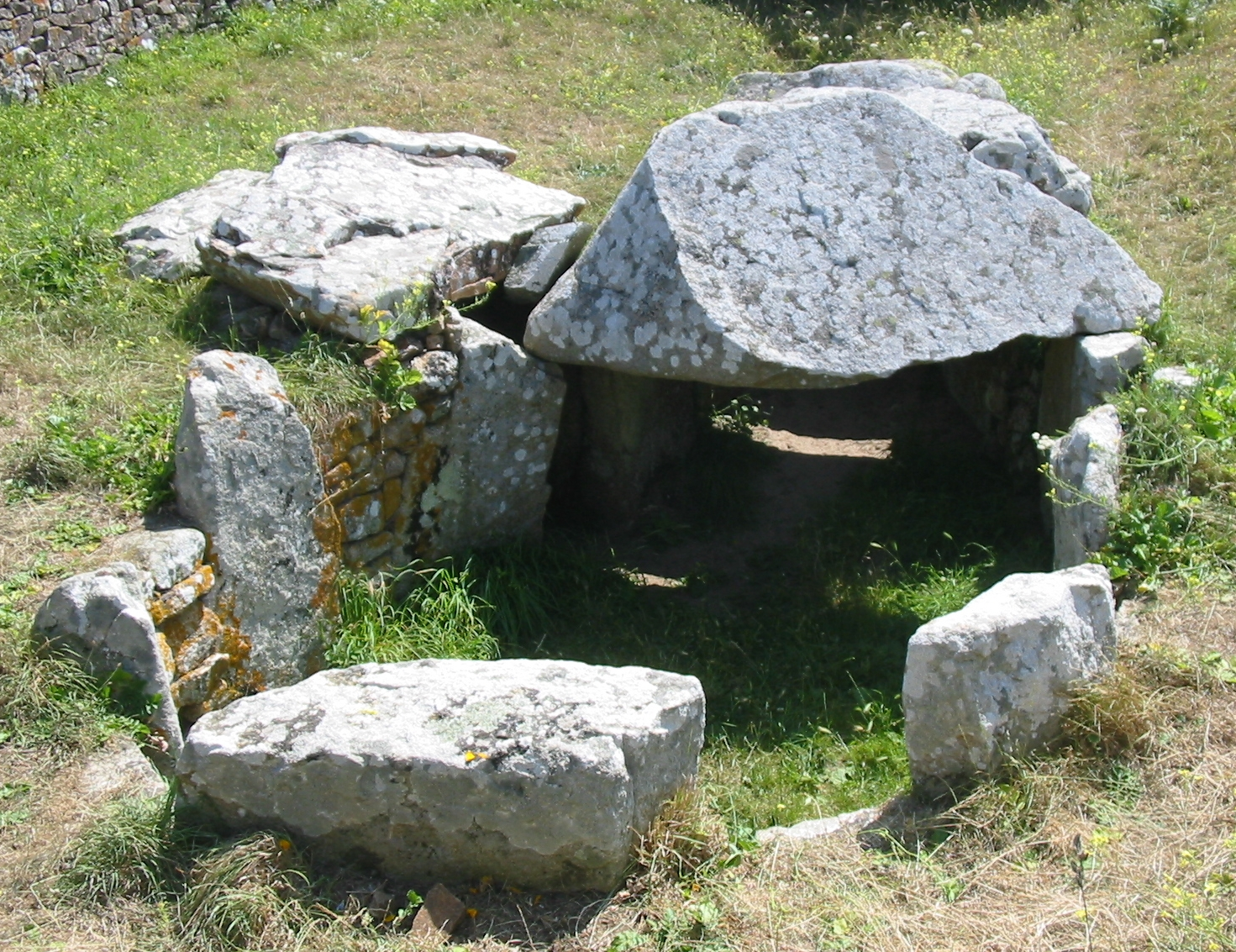 Dolmen des Monts Grantez, Jersey Photo taken by Man vyi with Canon PowerShot A40 on 22/7/2005